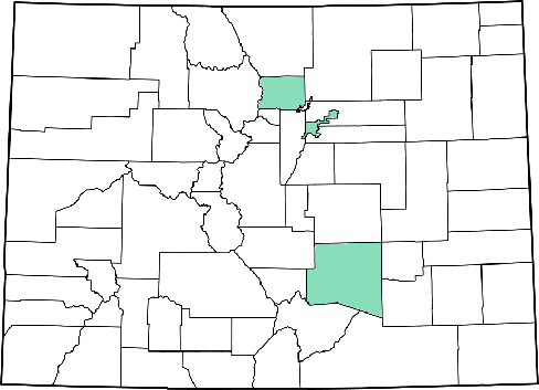 County previously issued marriage licenses to same-sex couples